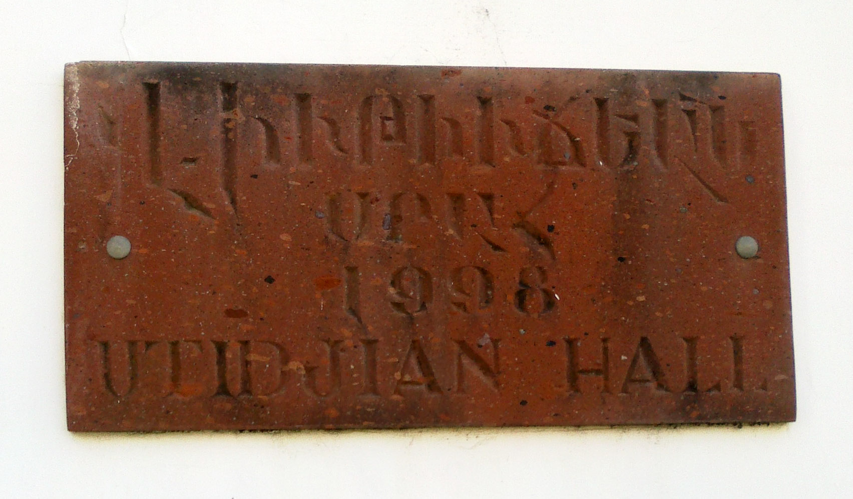 Stone inscription on top of the Utidjian Hall in Nicosia